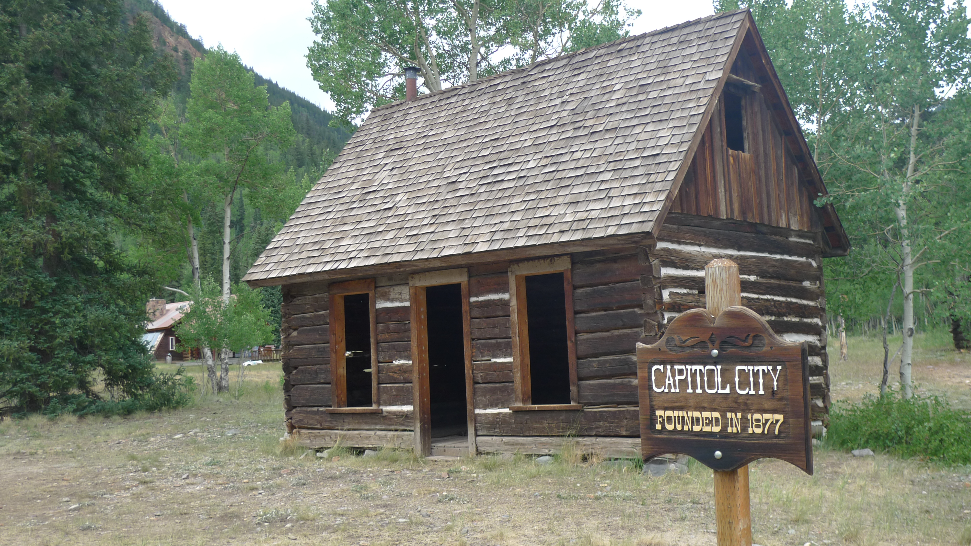 Capitol City, Colo. This ghost town once had a population of 400; its founders wanted it to become the capitol of Colorado. The post office, some outbuildings, and brick kilns remain.